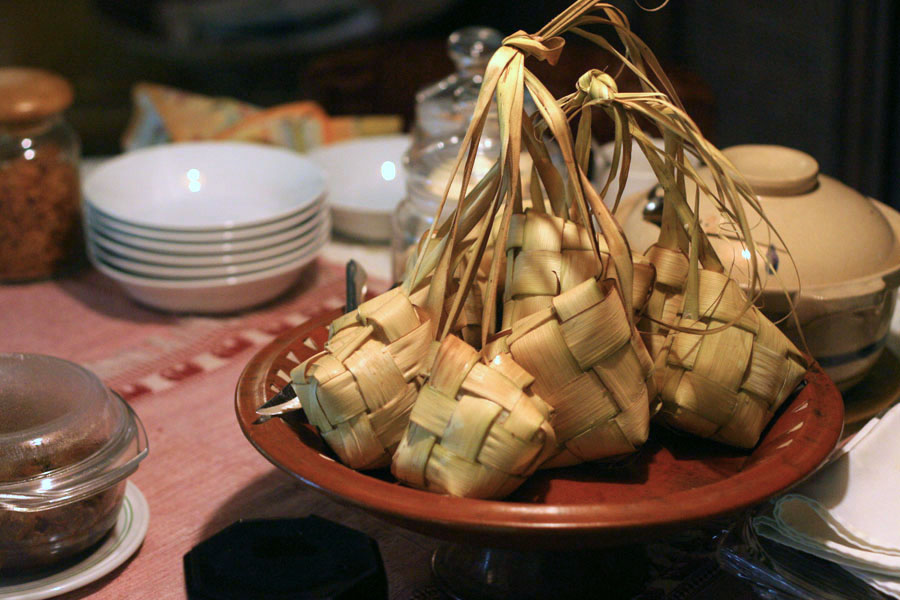 Ketupat, traditional indonesian rice cake. Typically eaten for festive seasons.